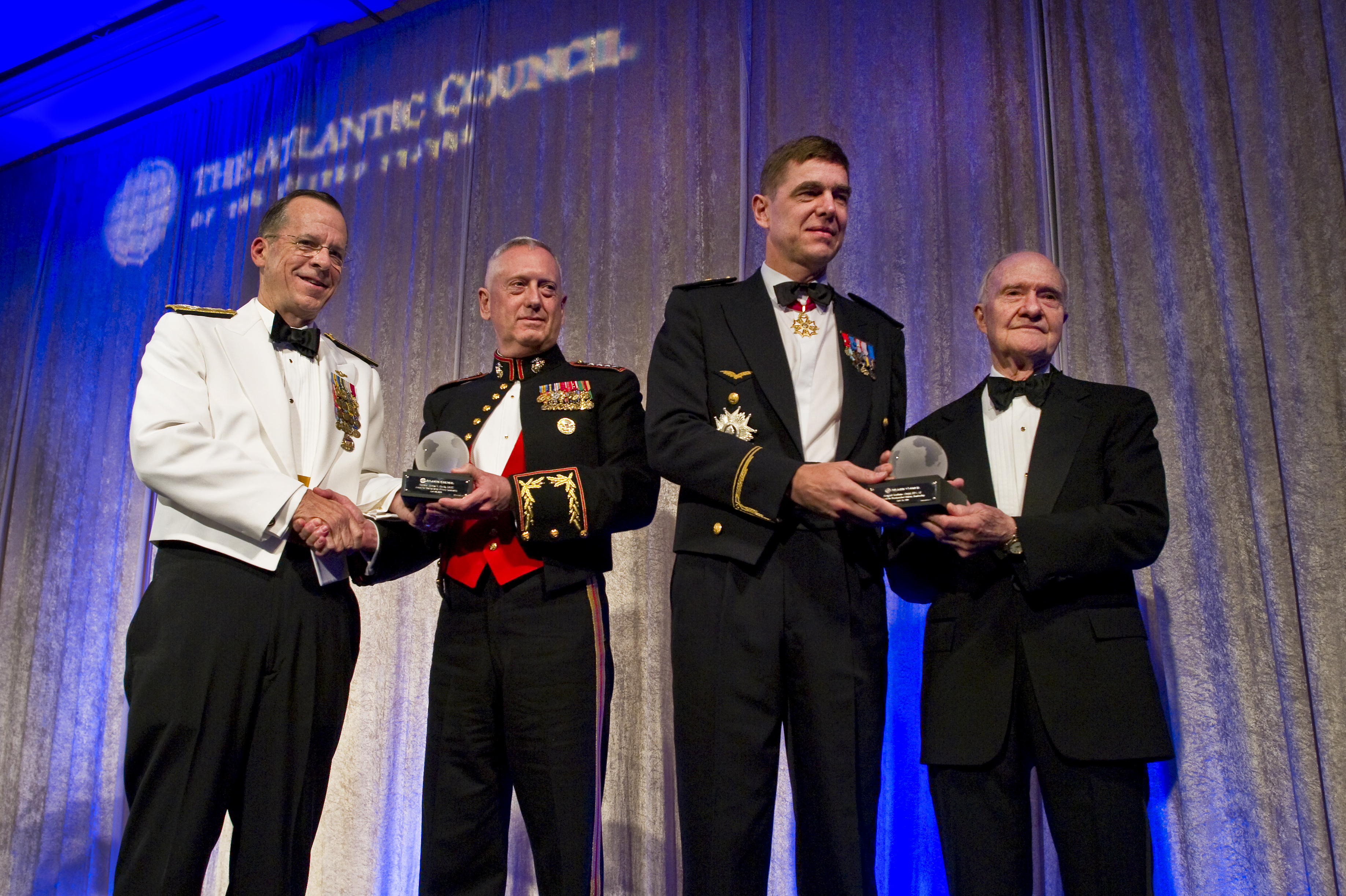 Navy Adm. Mike Mullen, chairman of the Joint Chiefs of Staff, left, and retired Air Force Lt. Gen. Brent Scowcroft, right, present U.S. Marine Gen. James N. Mattis, commander, U.S. Joint Forces Command, center left, and French Gen. Stephane Abril, NATO Supreme Allied Commander Transformation, with the Distinguished Military Leadership Award at the annual Atlantic Council Awards Gala in Washington, D.C., April 26, 2010.